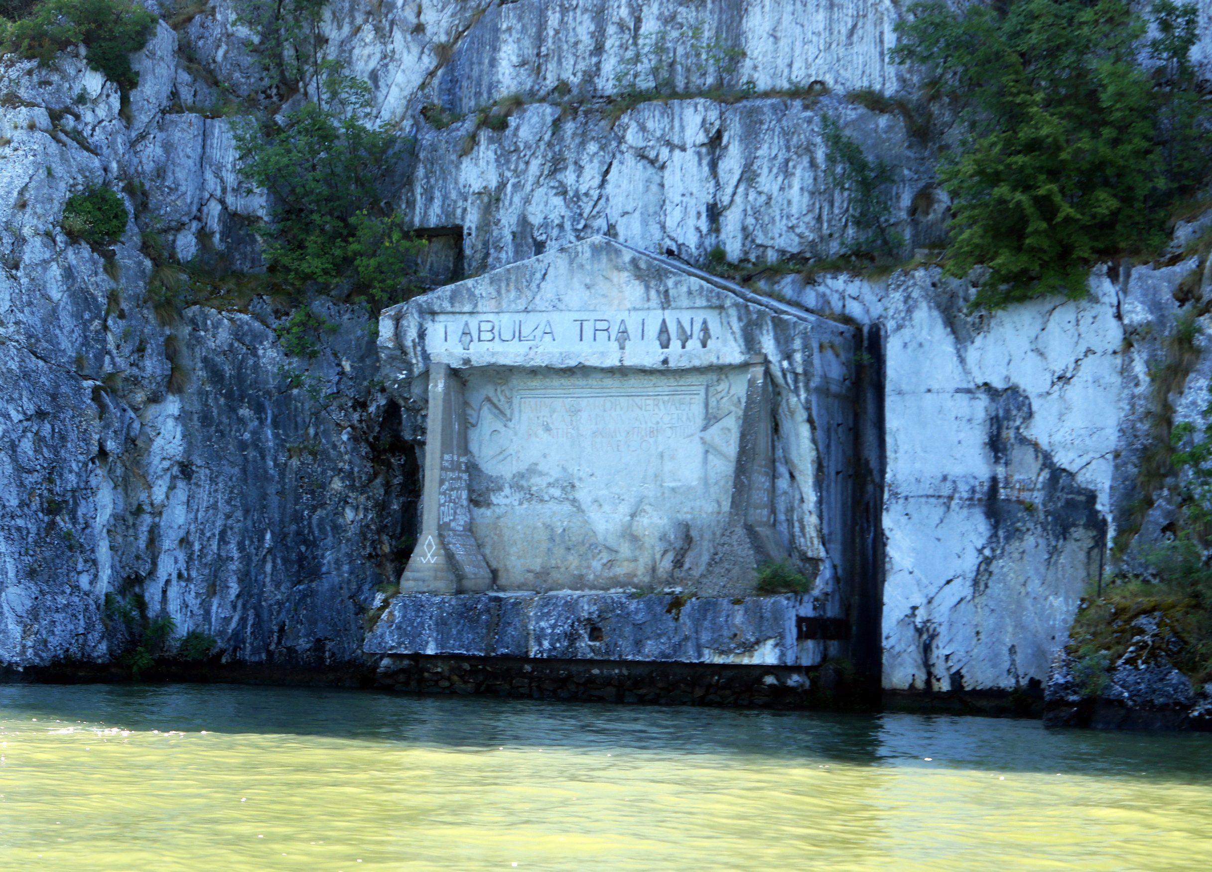 Traian's Table (Tabula Traiana), National Park Đerdap